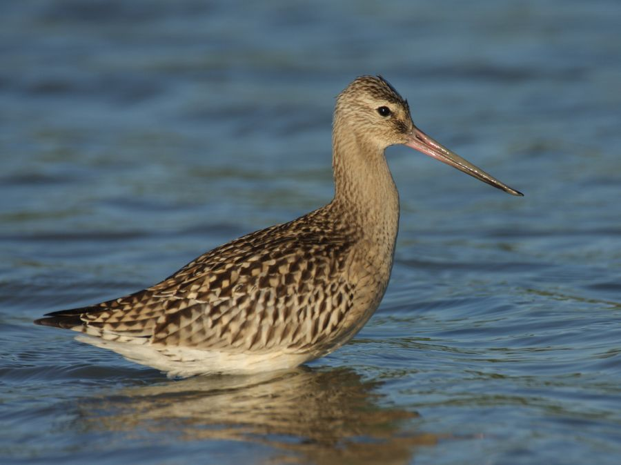 Young bar-tailed godwit (Limosa lapponica), Mekszikópuszta, Hungary